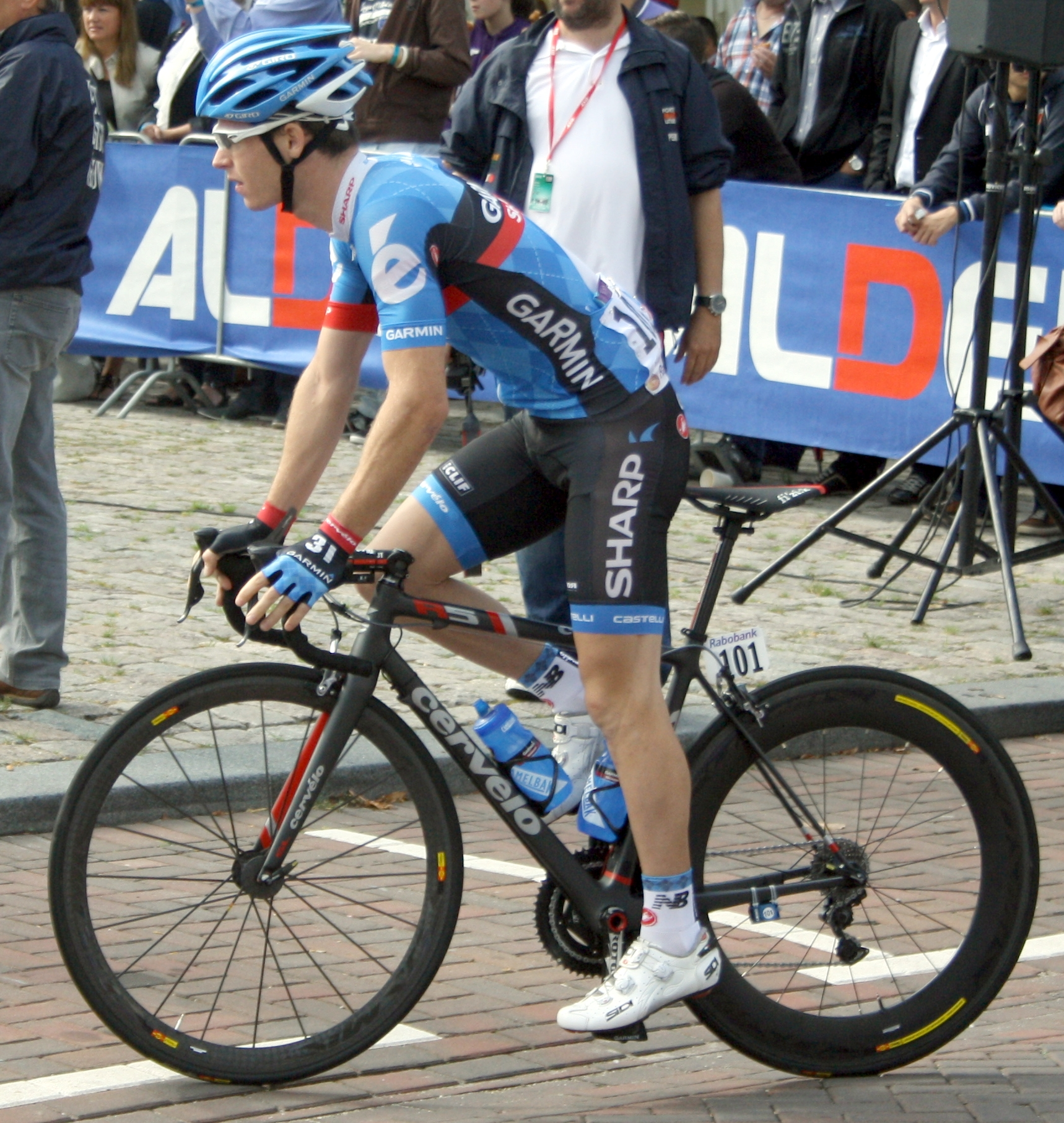 Raymond Kreder before the start of stage 2 of the World Ports Classic 2013